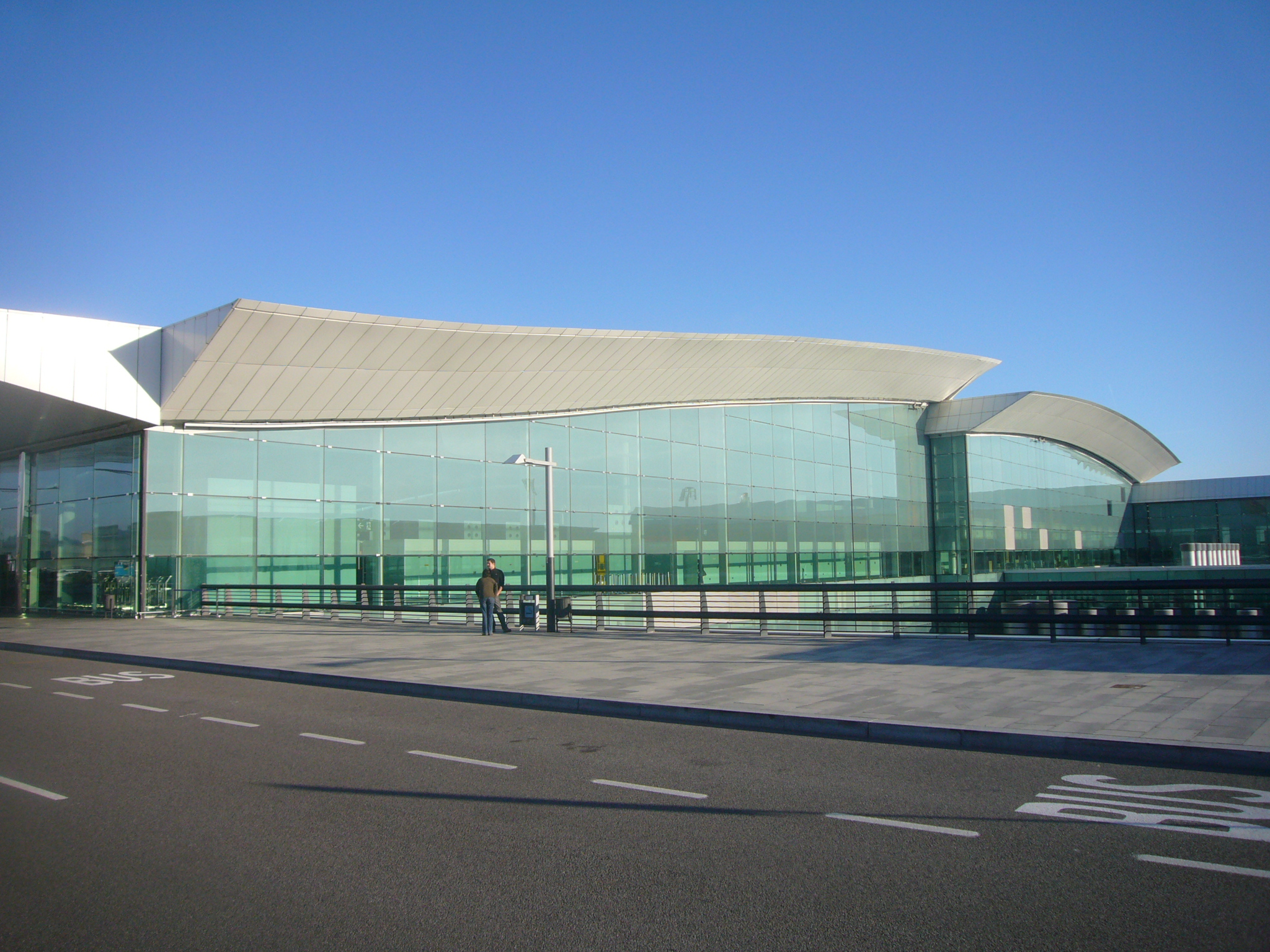 T1 Aeroport de Barcelona - Exterior de la terminal